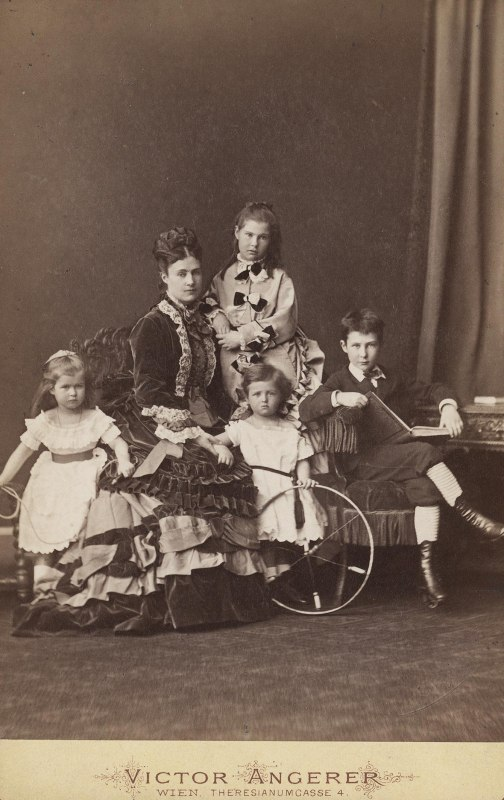 Duchess Maria Theresia of Wuerttmbger with her children.